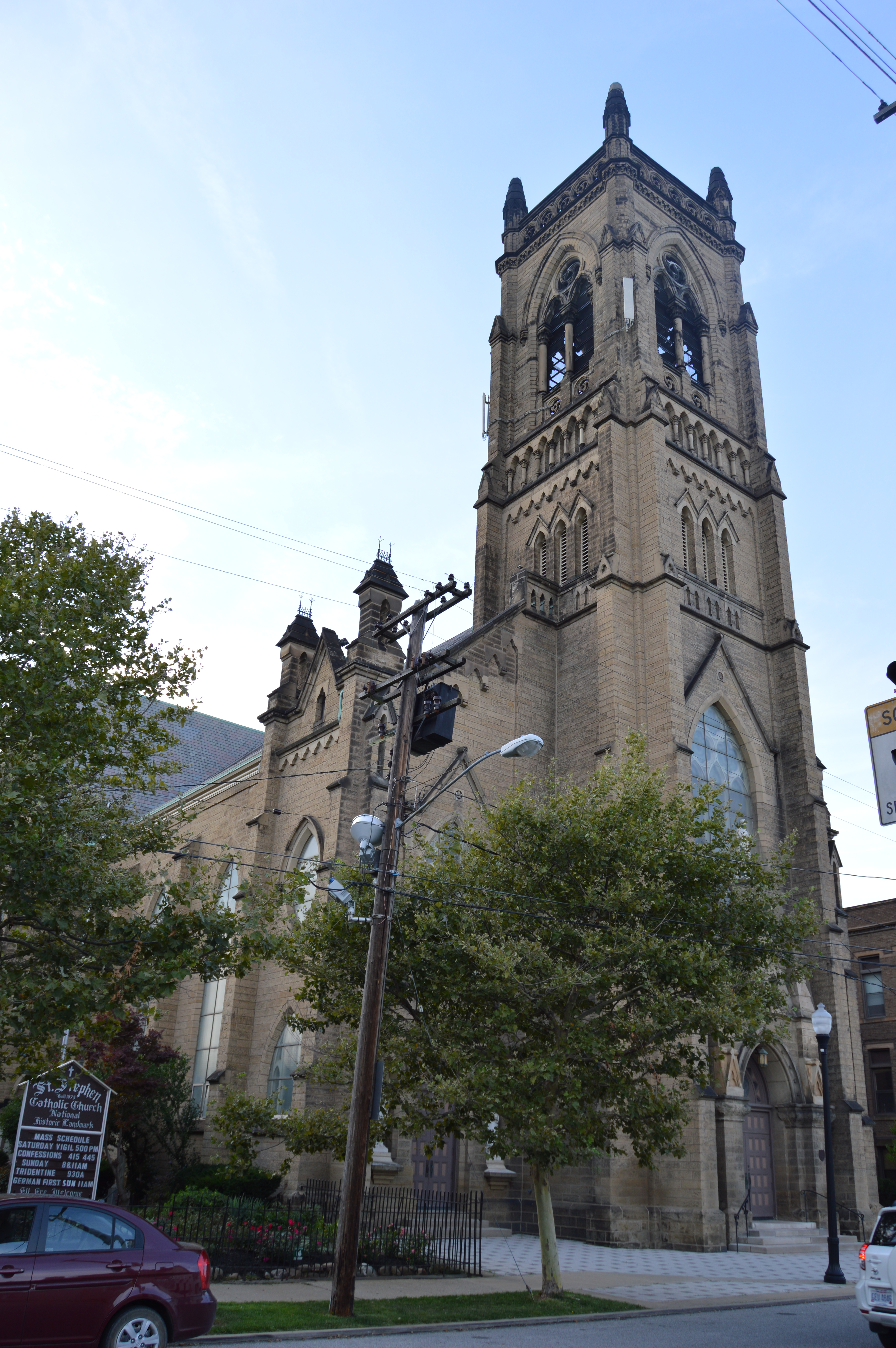 Southern side and front of St. Stephen's Catholic Church, located at 1930 W. Fifty-fourth Street in Cleveland, Ohio, United States. Built in 1875, it is listed on the National Register of Historic Places.